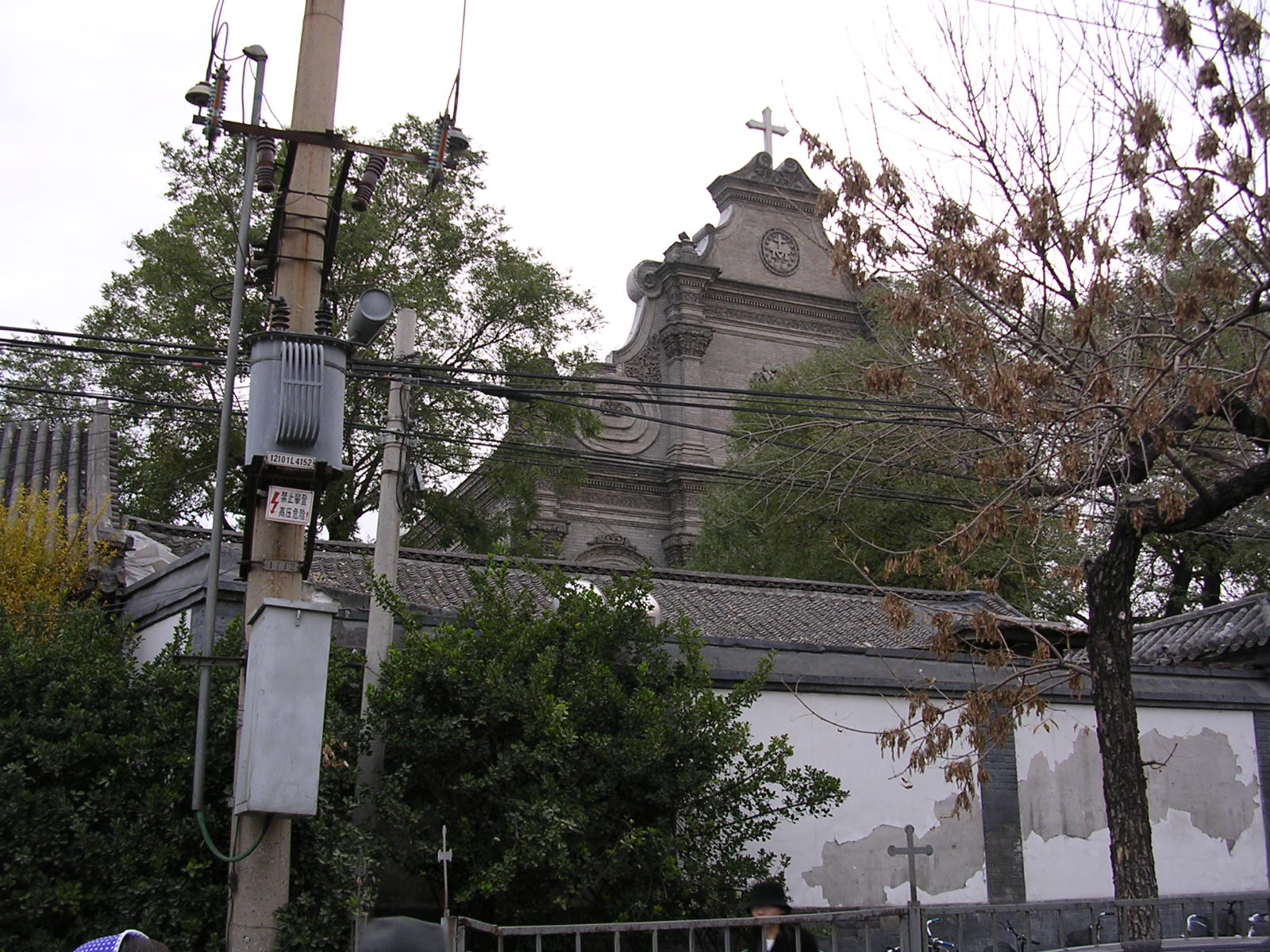 Catholic Cathedral of the Immaculate Conception (also called Nantang) in Beijing from the Street.